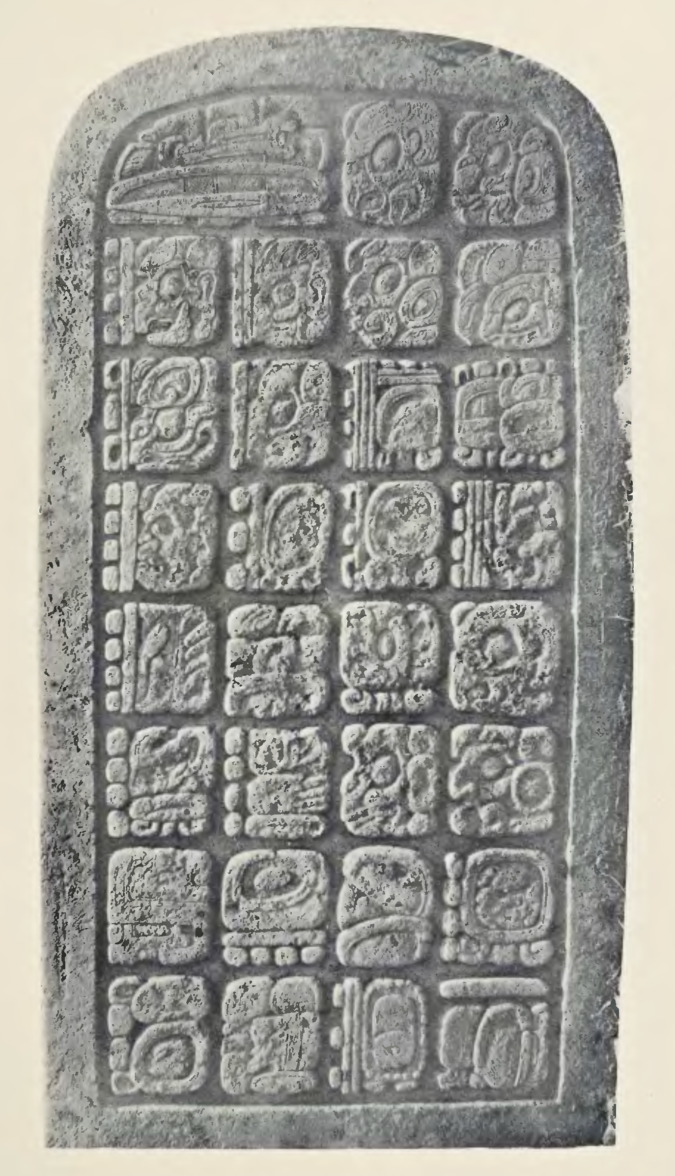 Plate XXIX from Researches in the Central Portion of the Usumatsintla Valley, published in 1901.Piedras Negras: Stela 36.